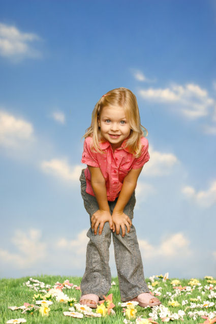 Mia-Sophie Wellenbrink